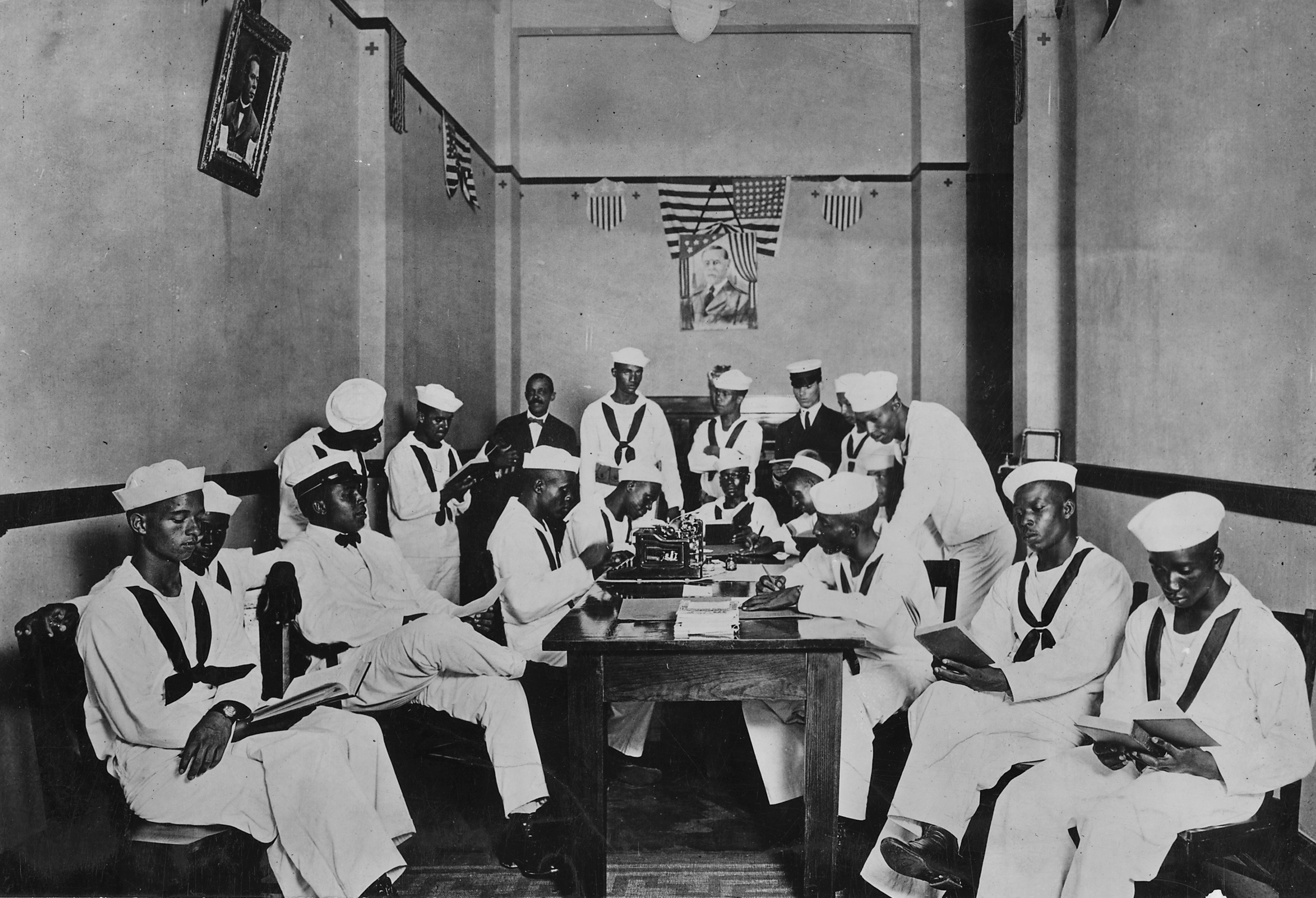 Segregated room for "Colored" servicemen during World War I, New Orleans. "American Red Cross Rest Room for [African American] soldiers and sailors. [African American] sailors in the rest room of the Red Cross headquarters, Branch Number 6, of the New Orleans Chapter. This room has been fitted for the use of the [African American] sailors and soldiers by Louise J. Ross."